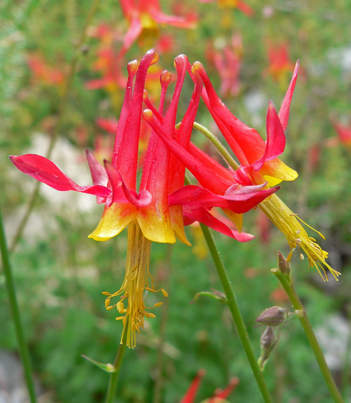 Aquilegia shockleyi at Mummy Spring, Spring Mountains, southern Nevada (elev. about 3000 m)